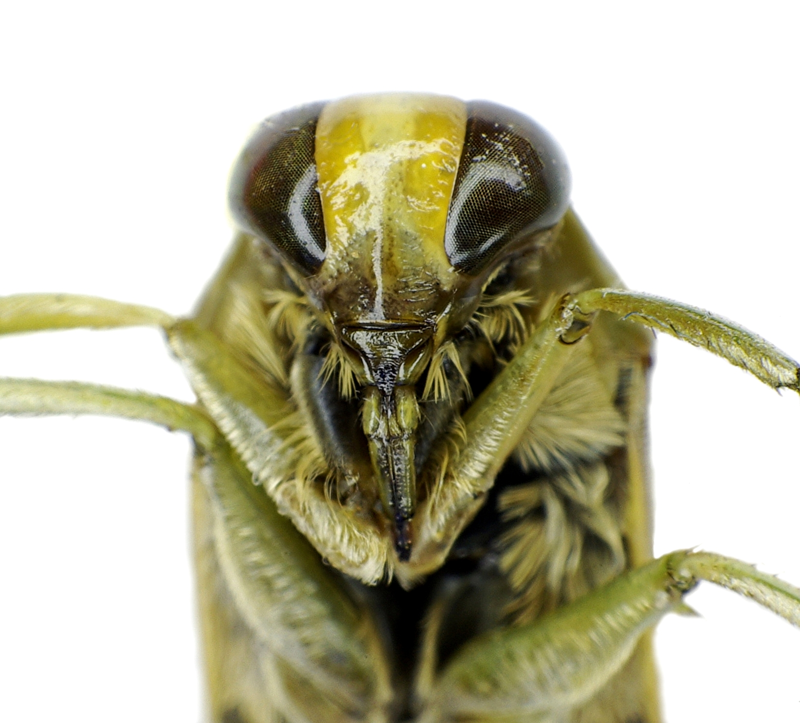 Notonecta maculata from Southern Germany